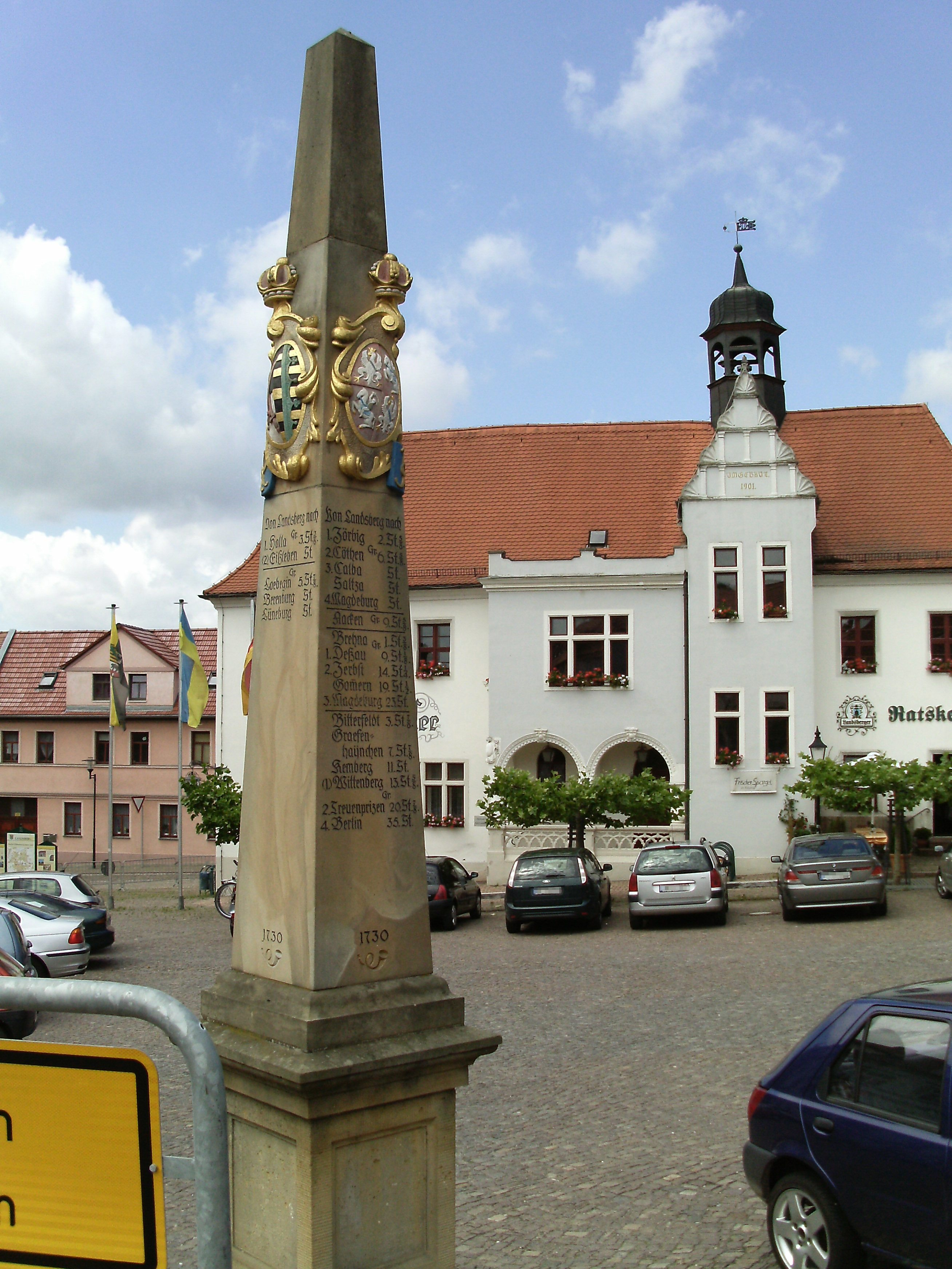 Post distance obelisk and town hall in Landsberg (Saalekreis, Saxony-Anhalt)